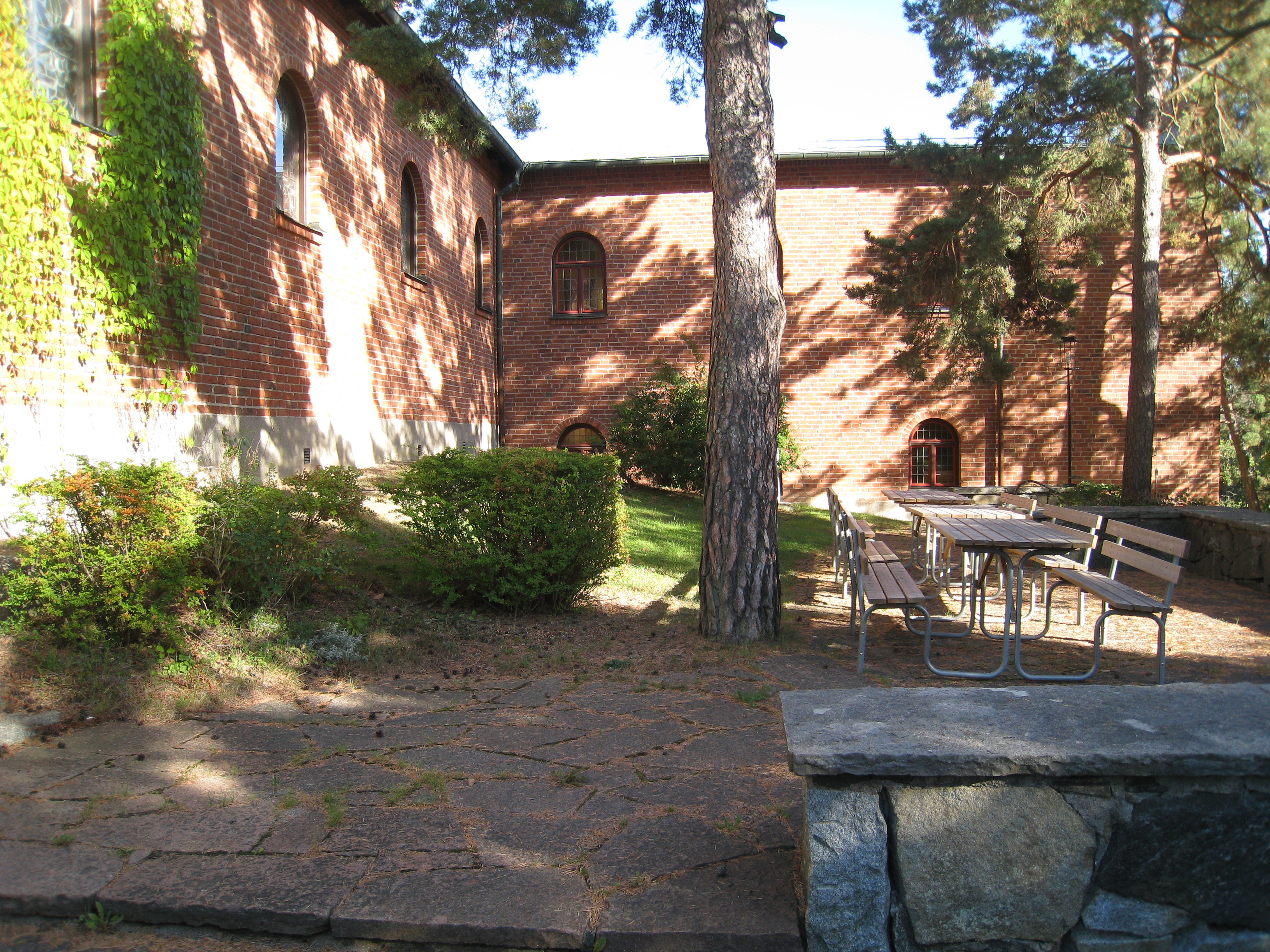 Västerledskyrkan, Bromma, Stockholm, Sweden